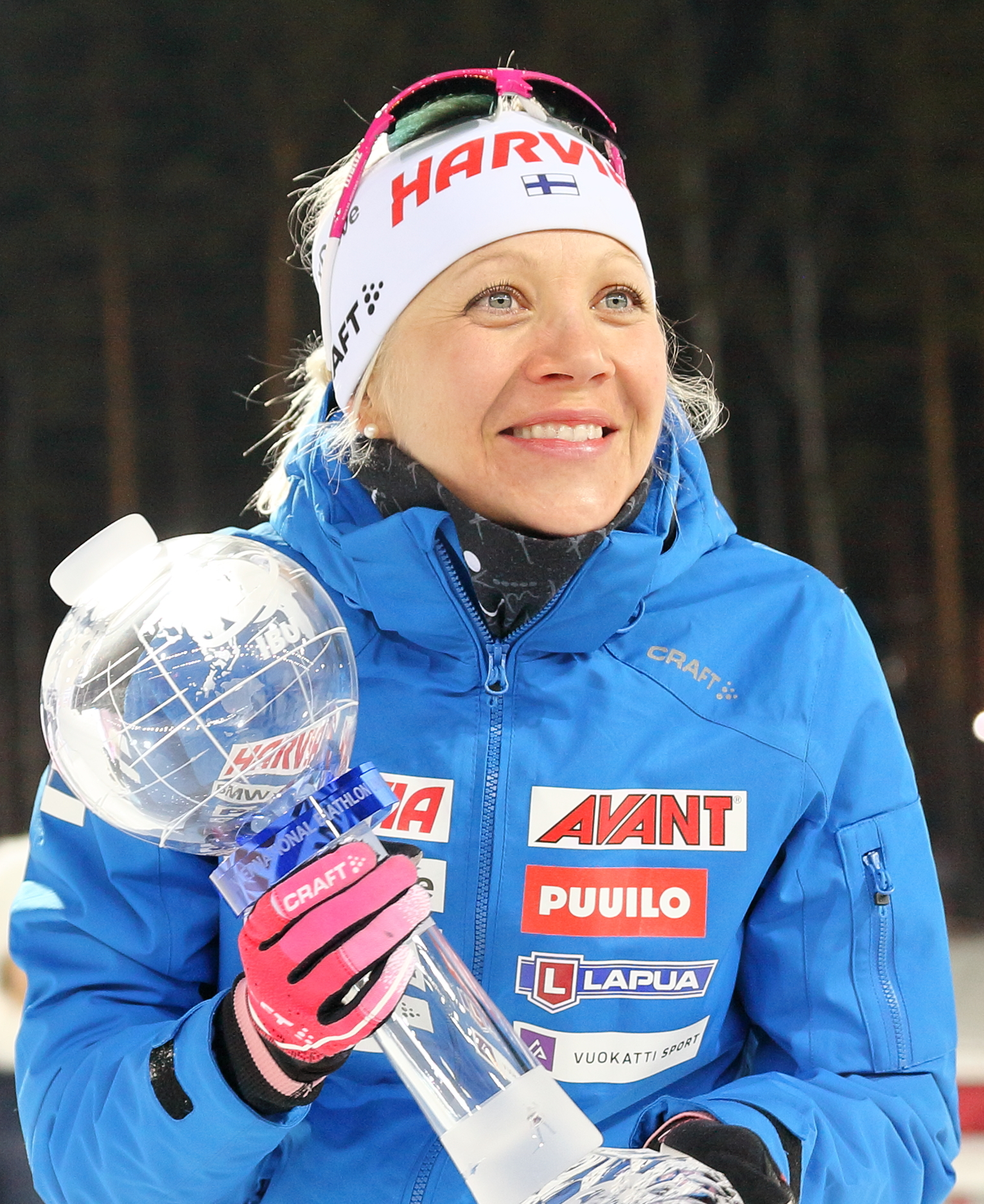 Big Crystal Globe trophy